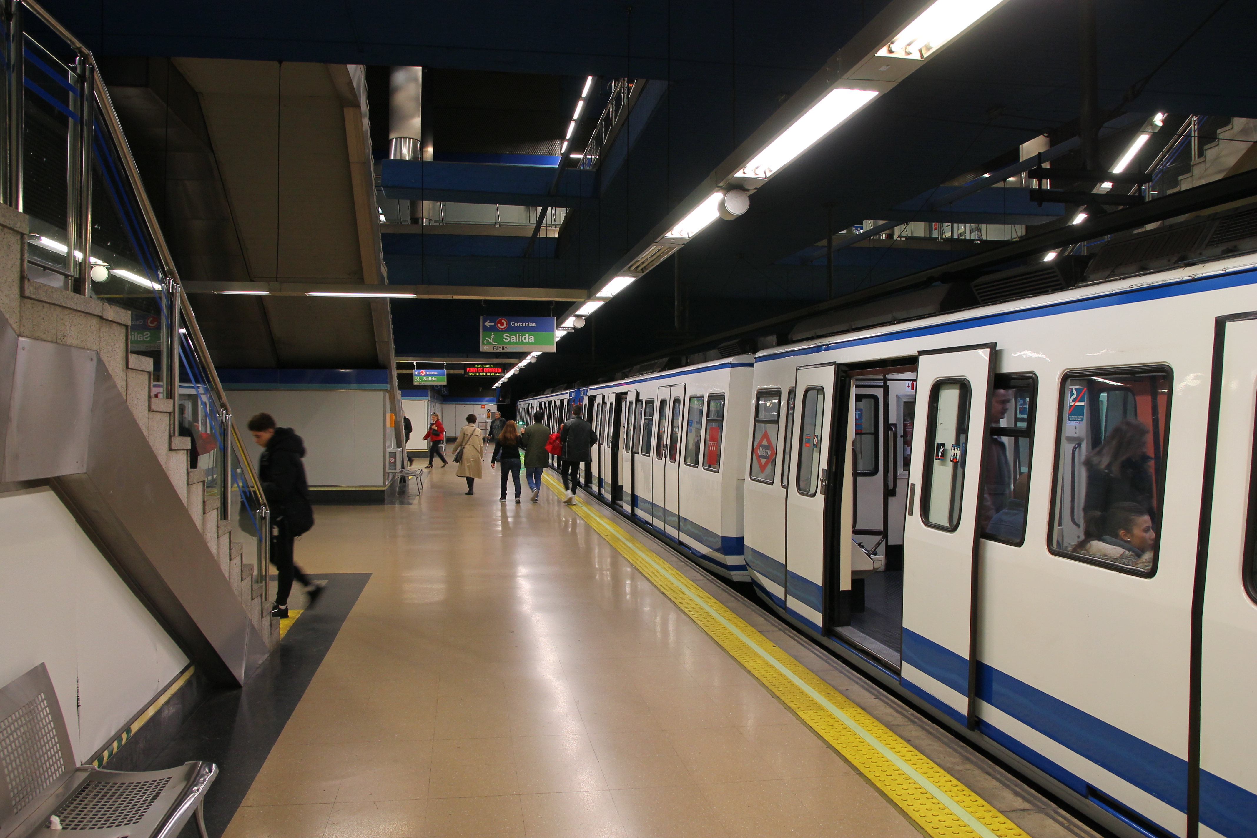 Sierra de Guadalupe station. Madrid Metro.